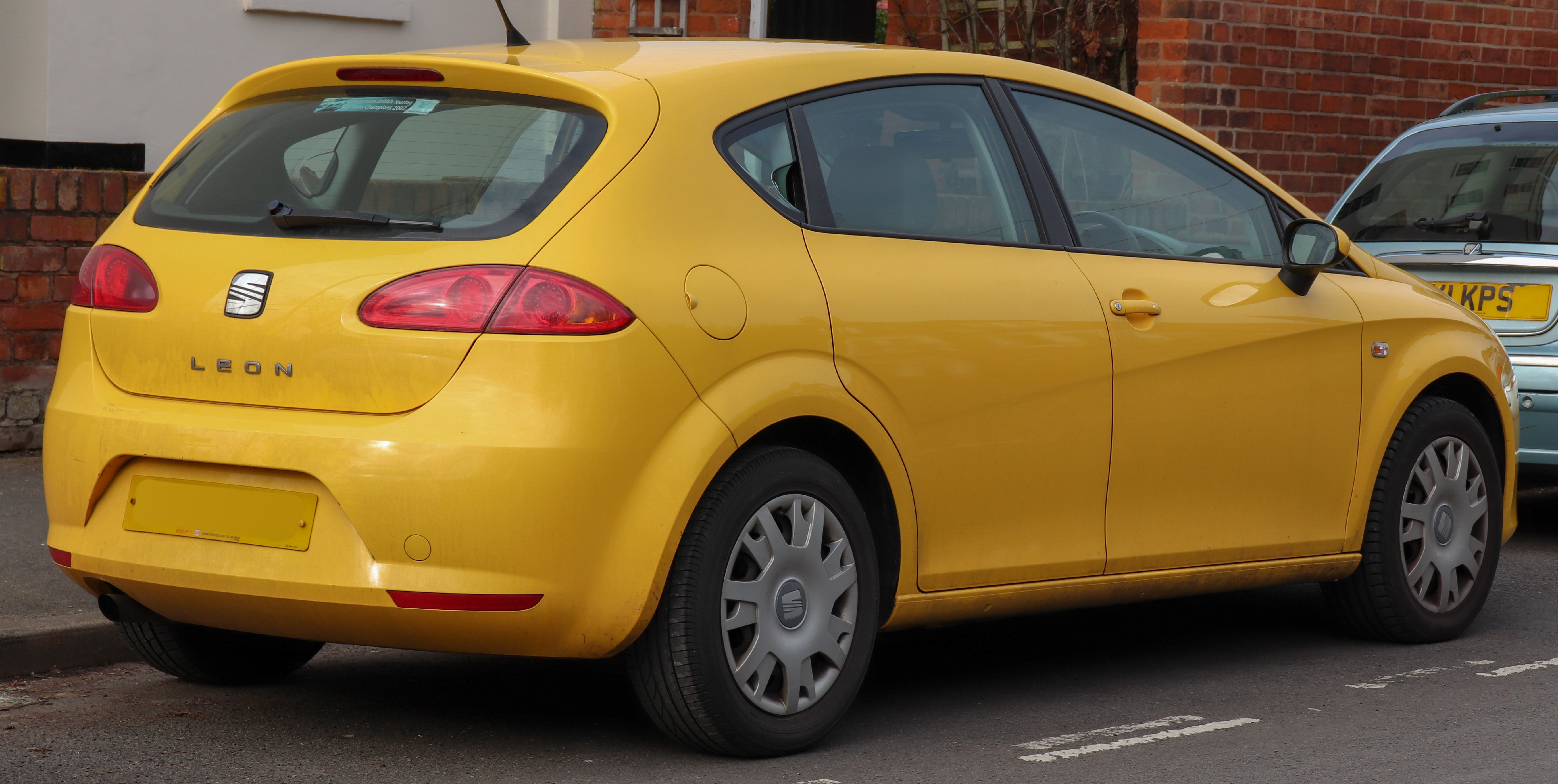 2008 SEAT Leon Reference 1.6 Rear Taken in Leamington Spa